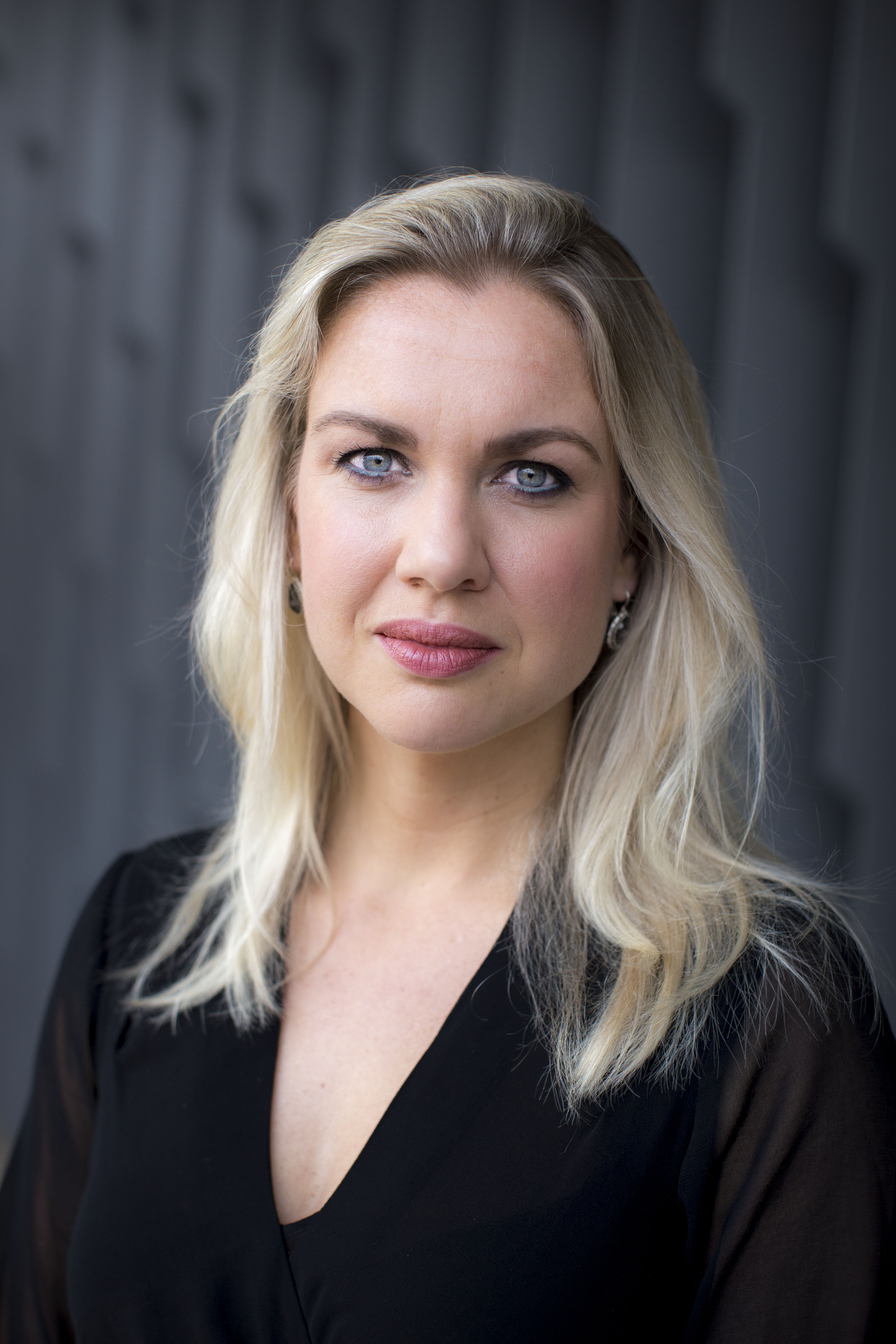 Nederland, Den Haag, 18 september 2017 Partij voor de Dieren; pvdd; Merel Arissen Foto: Thomas Schlijper